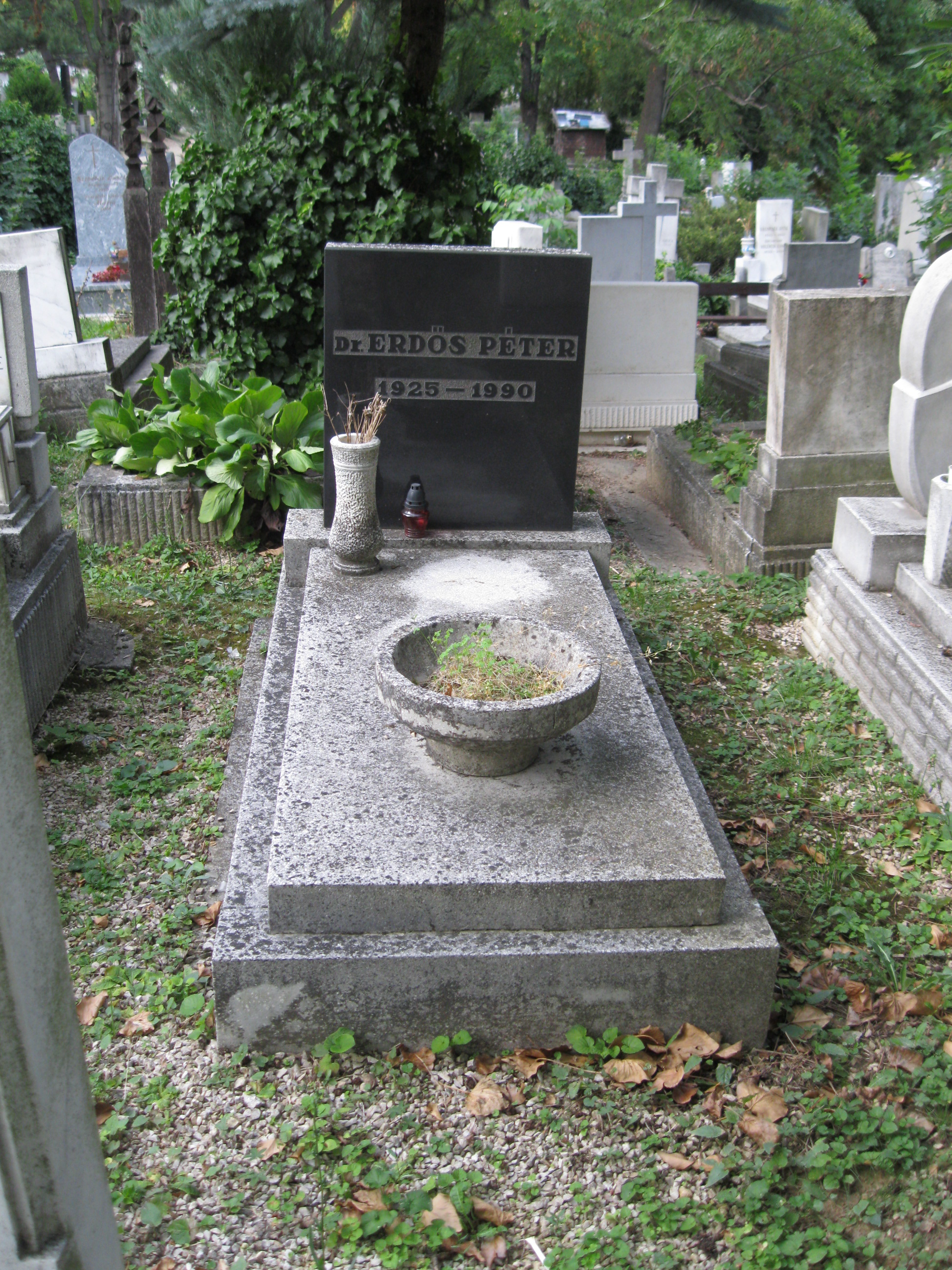 Tomb of Péter Erdős (manager) in Farkasréti Cemetery, Budapest District XII